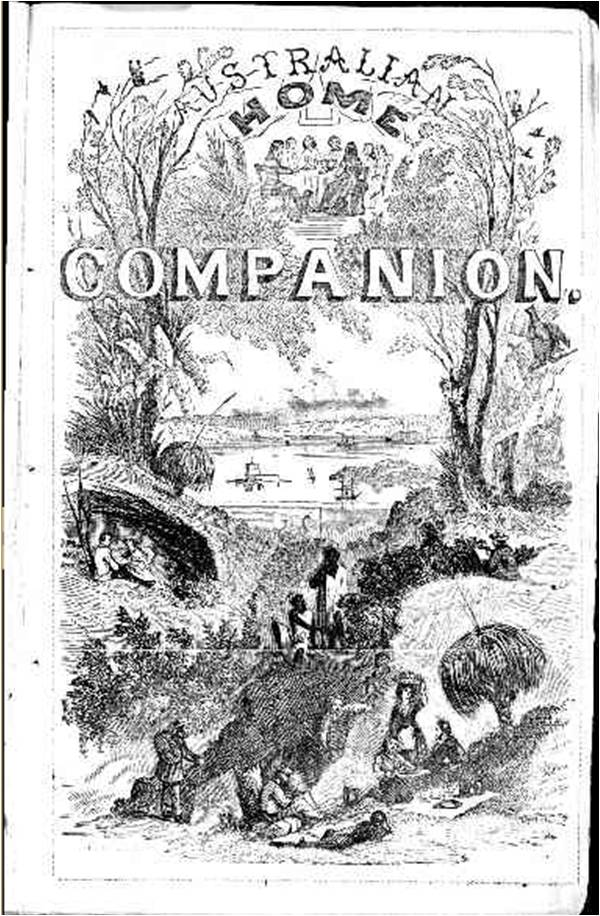 Old Australian newspaper cover page.